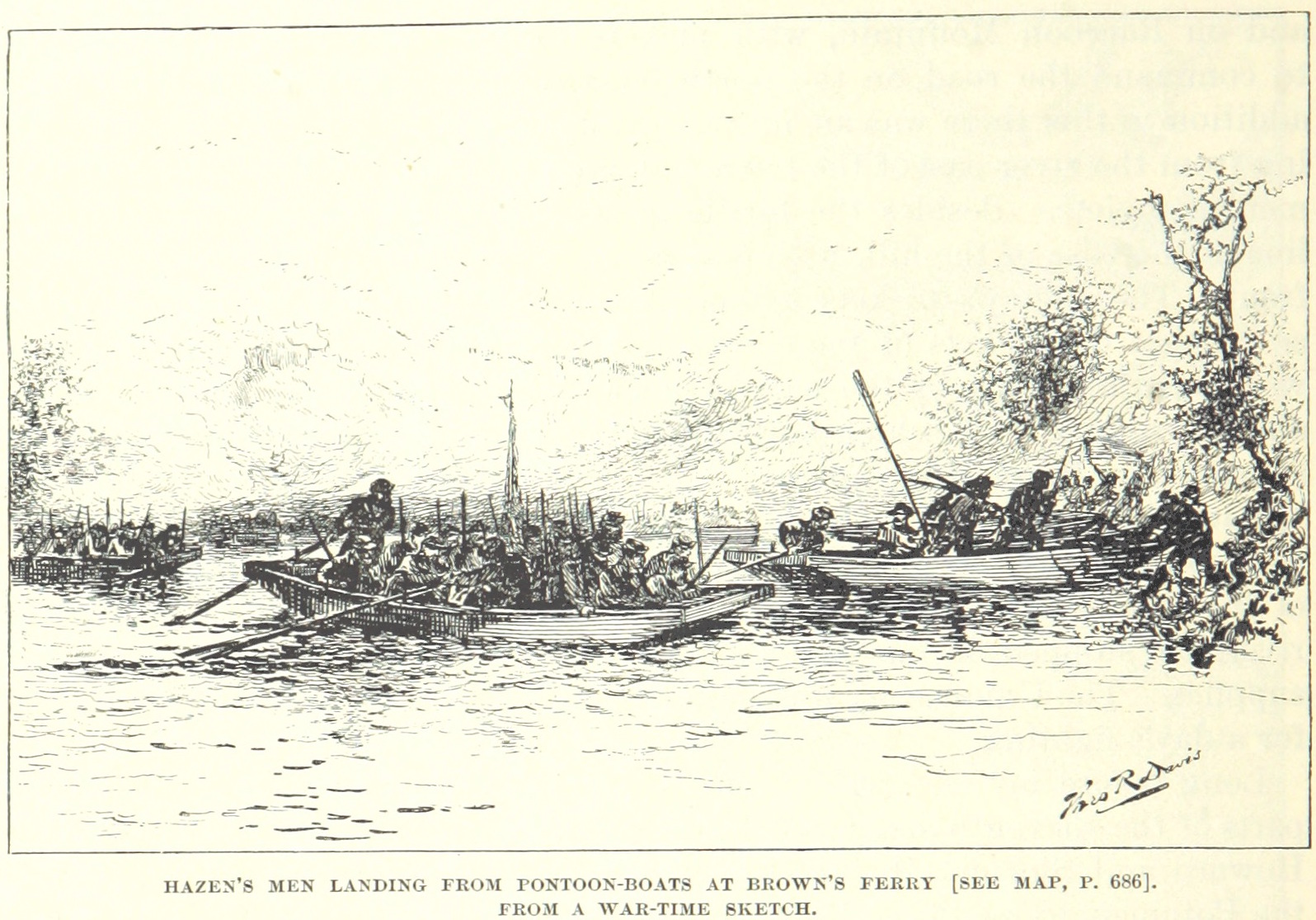 Soldiers of William B. Hazen's brigade cross the Tennessee River at Brown's Ferry during the Chattanooga Campaign.